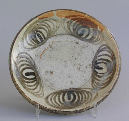 Horse eya plate Seto late 1700.